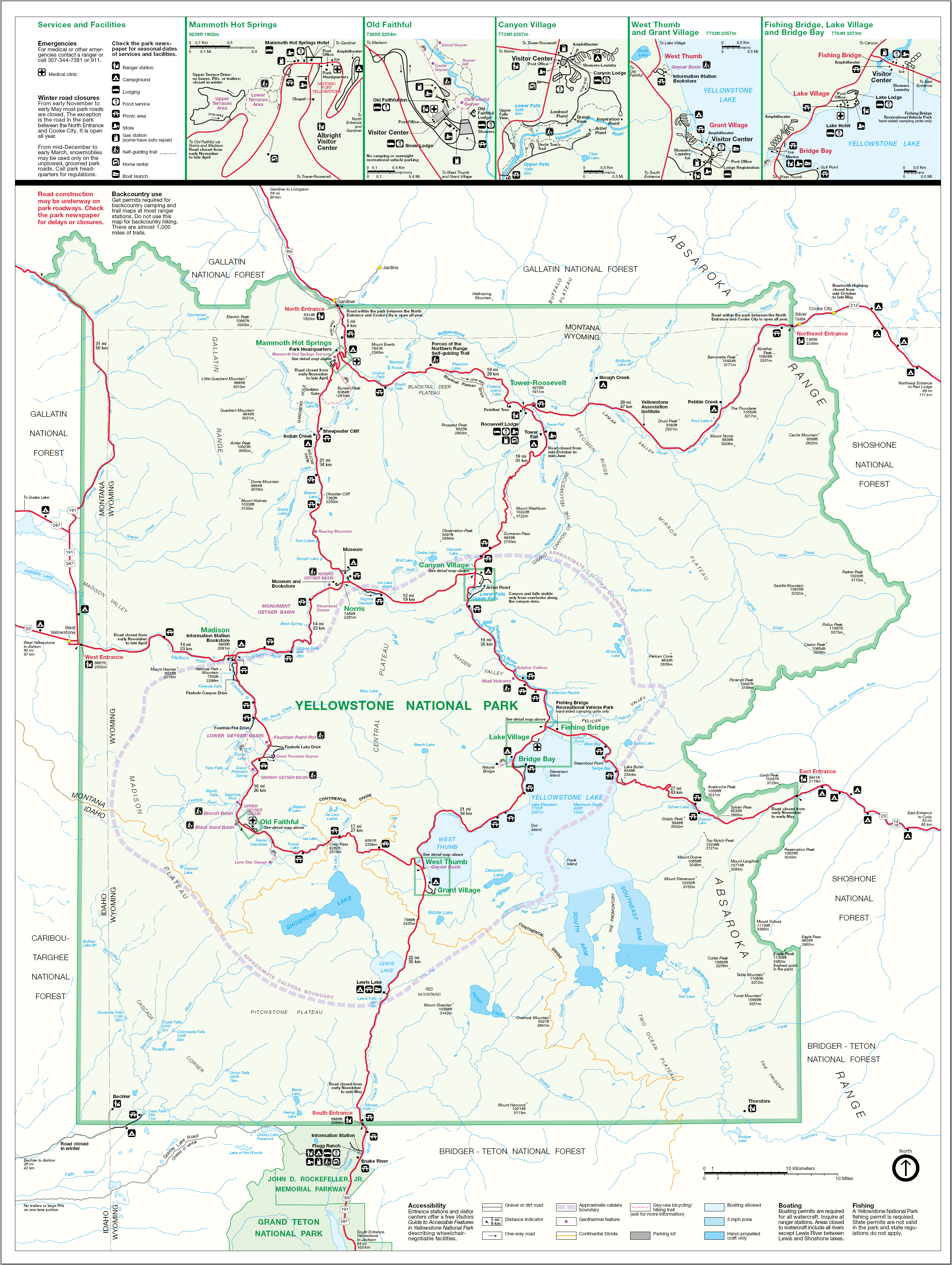 Map of Yellowstone National Park